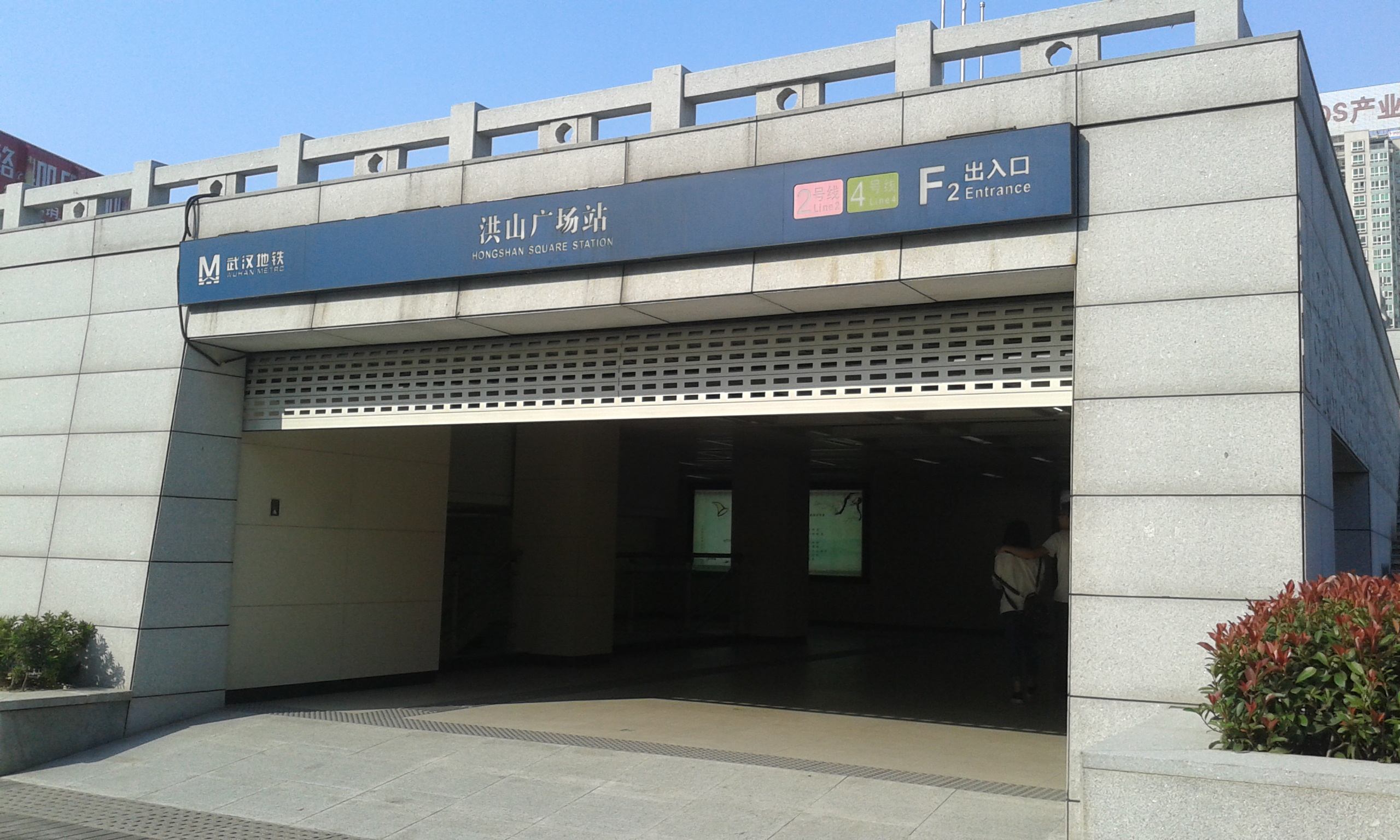 Entrance F2 of Hongshan Square Station, Wuhan Metro